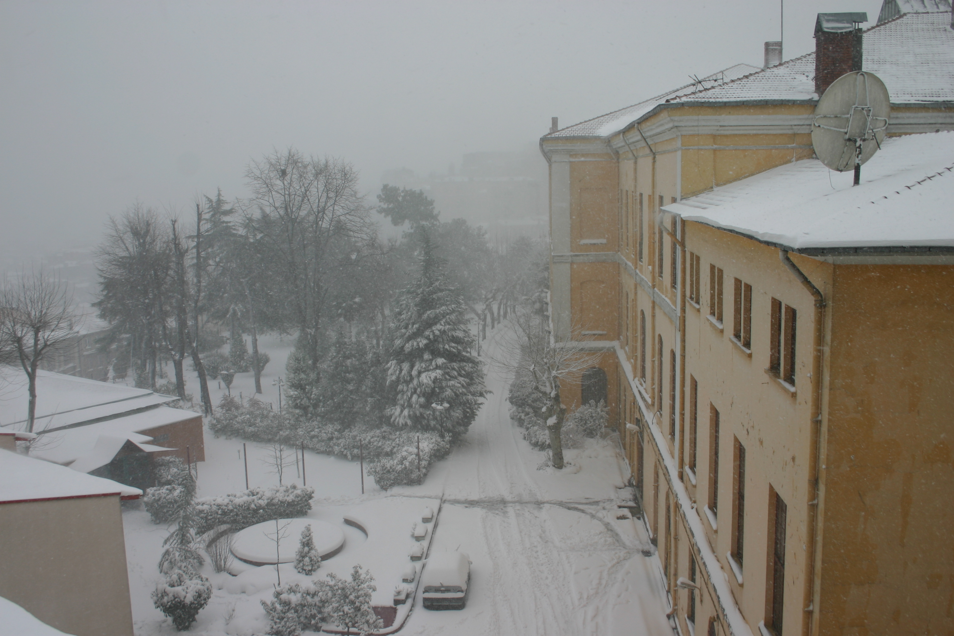 Galatasaray High School. Photo by Bertil Videt 2006